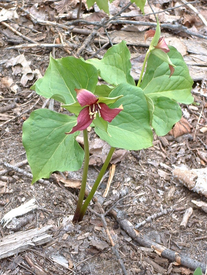 Purple Trillium